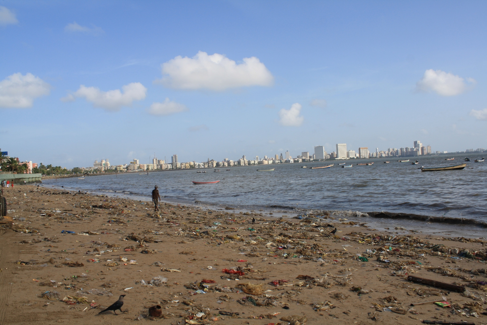 Polluted Beach of Mumbai. Girgaum Chowpaty. Maharashtra, India. (1)